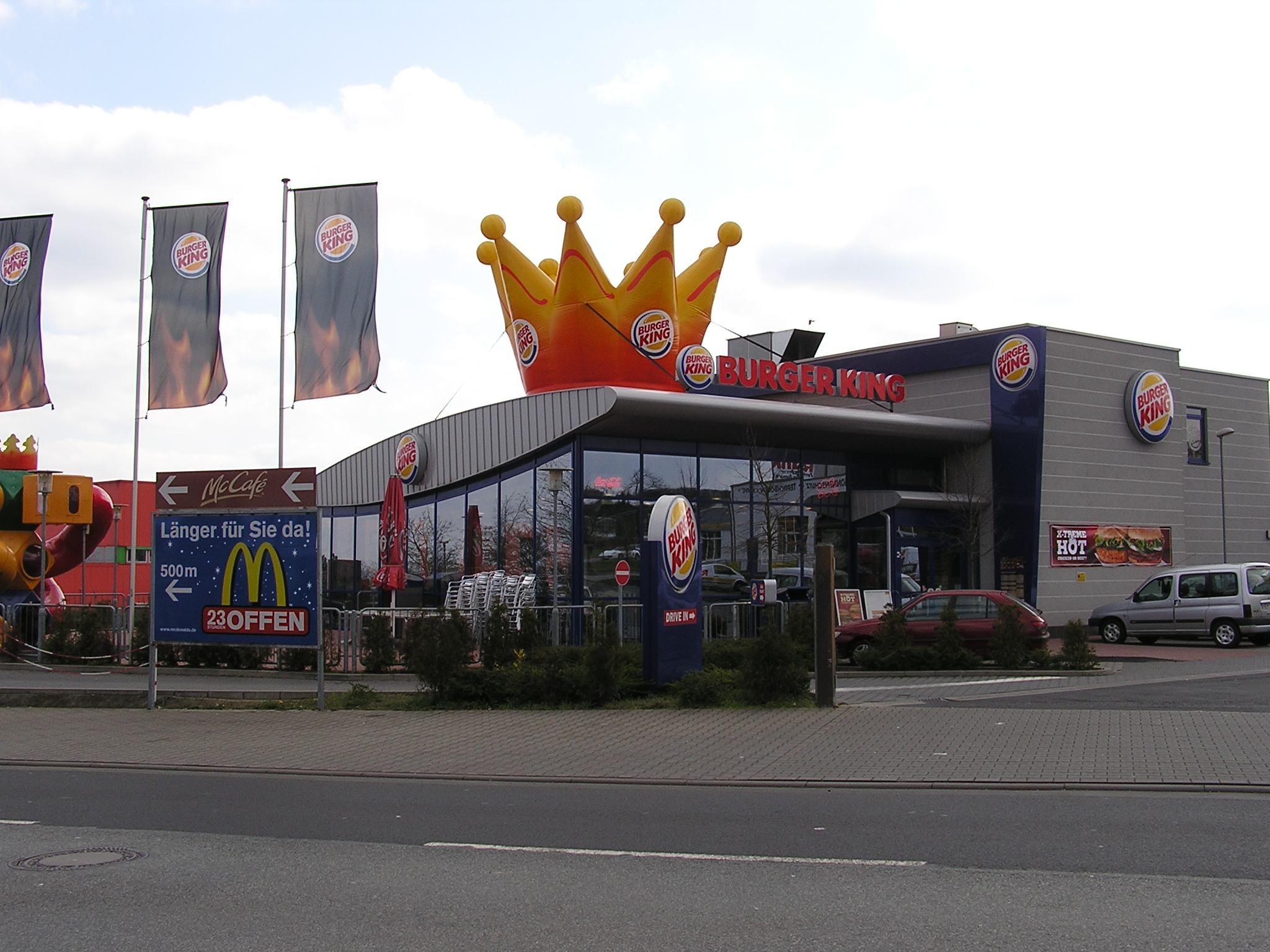 Comparative advertising by McDonald's in front of a Burger King franchise in Rosbach vor der Höhe